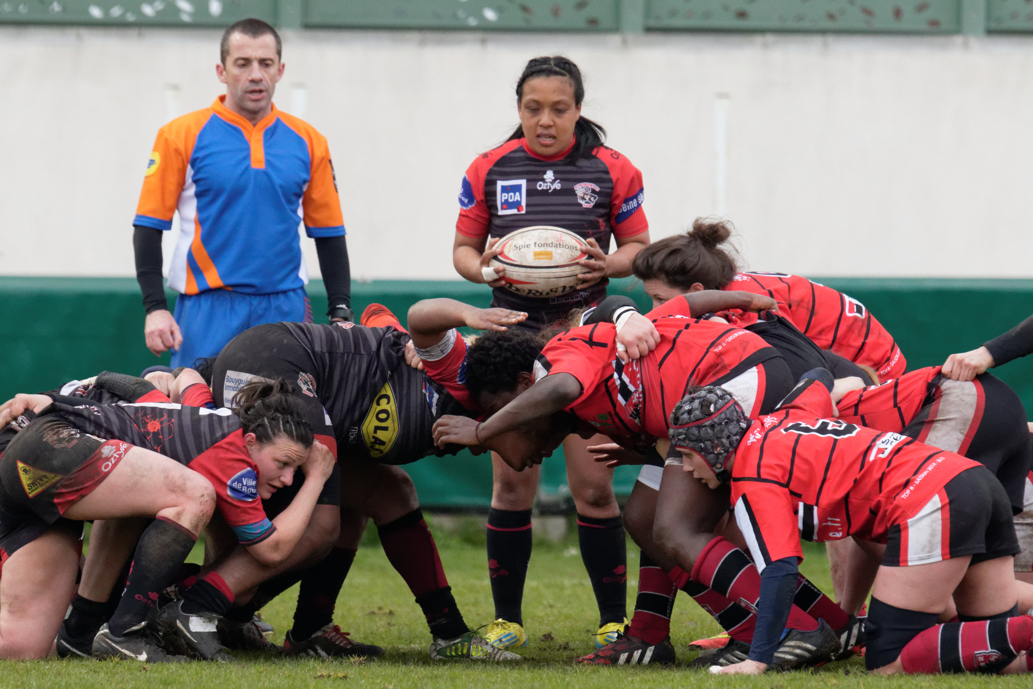 Bobigny vs Rennes, Top 8, 4th April 2015.